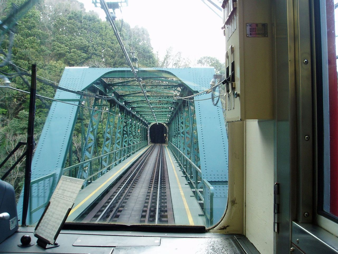 Hakone Tozan Railway Hayakawa bridge